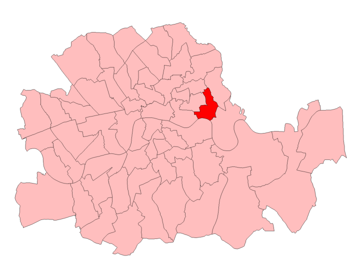 A map of Limehouse constituency within the London County Council area, as it existed from 1918 to 1949.